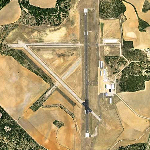 USGS digital orthophoto of Brownwood Regional Airport, formerly Brownwood Army Airfield. Located in Brownwood, Texas, United States.